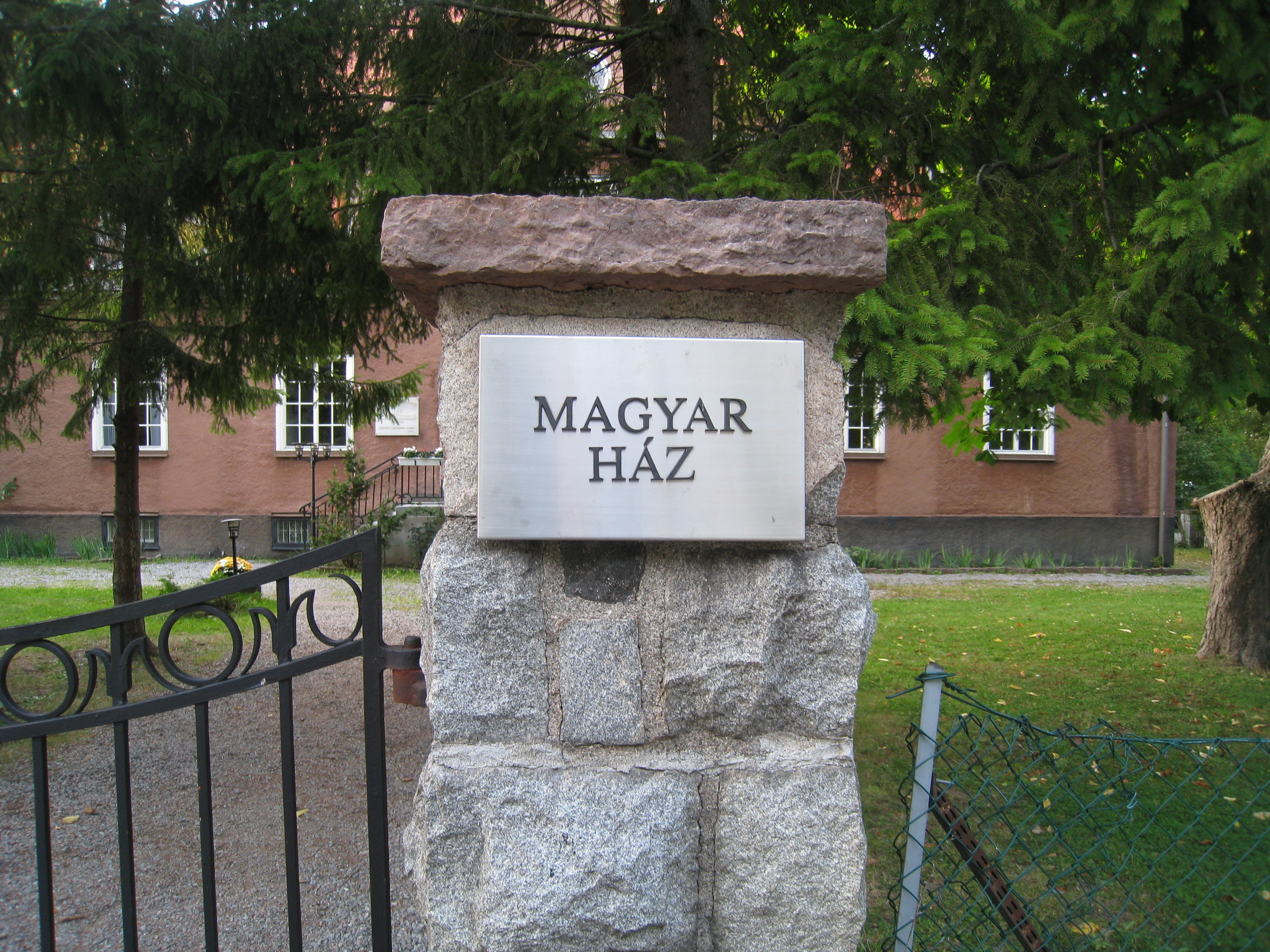 Ulvsunda rectory in Ulvsunda, Bromma, western Stockholm, was built in 1914 and used as a recidence for Bromma's priests during 1914-1971.